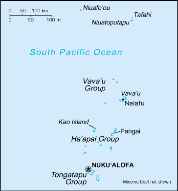 Map of Tonga, showing major islands and island groups.